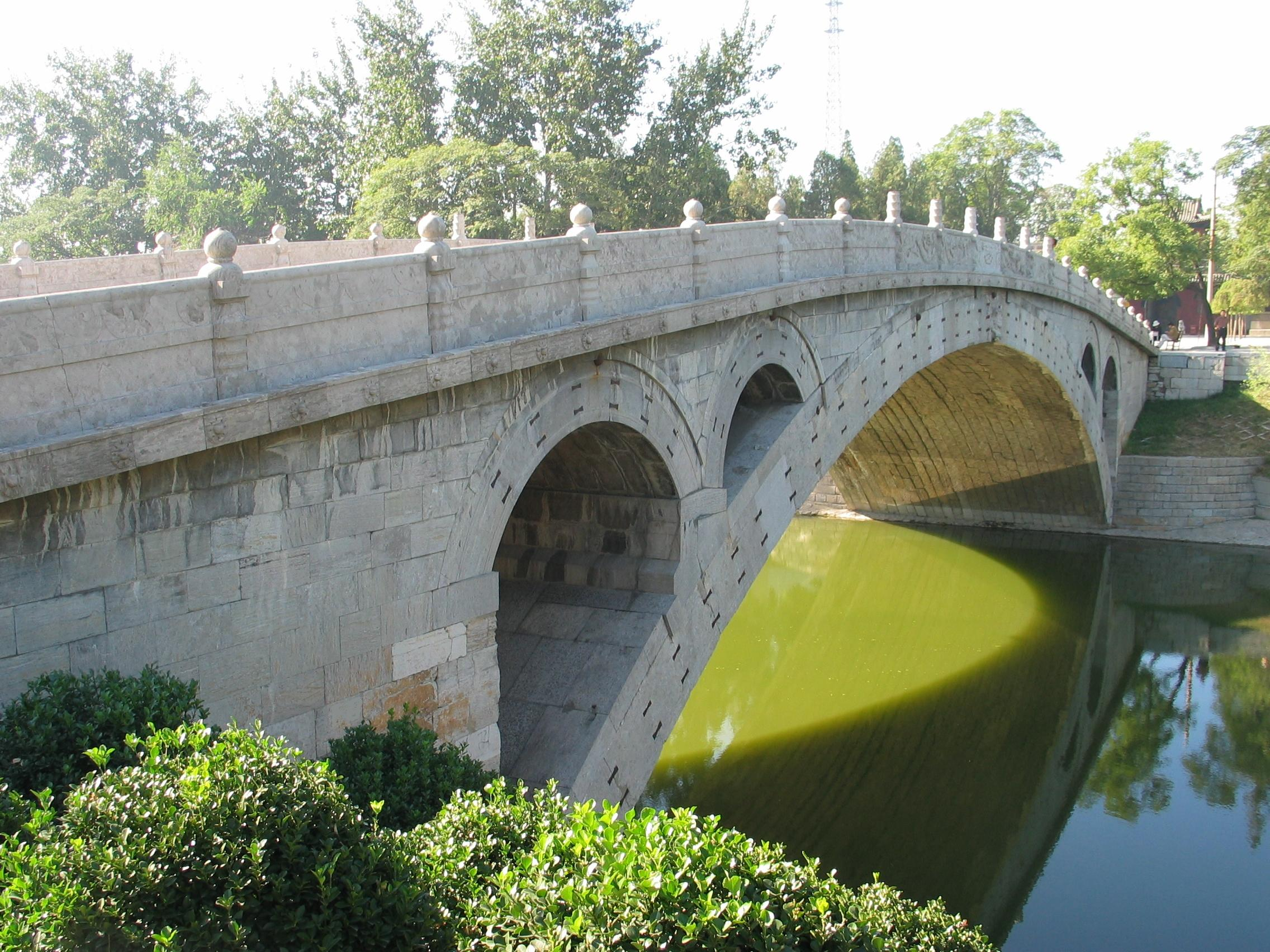 The Zhaozhou Bridge was built by the architect Li Chun from 595 to 605 AD, during the Chinese Sui Dynasty. It is the world's oldest fully-stone, open-spandrel, segmental arch bridge.